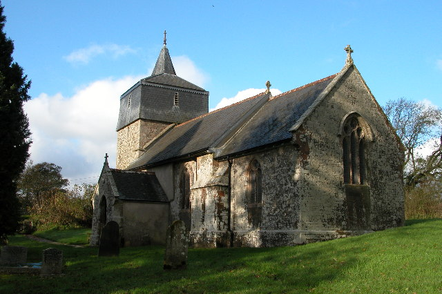 Parish church of St Mary the Virgin, Brushford, Devon, seen from the southeast. The bell stage of the west tower is timber framed and hung with slate.